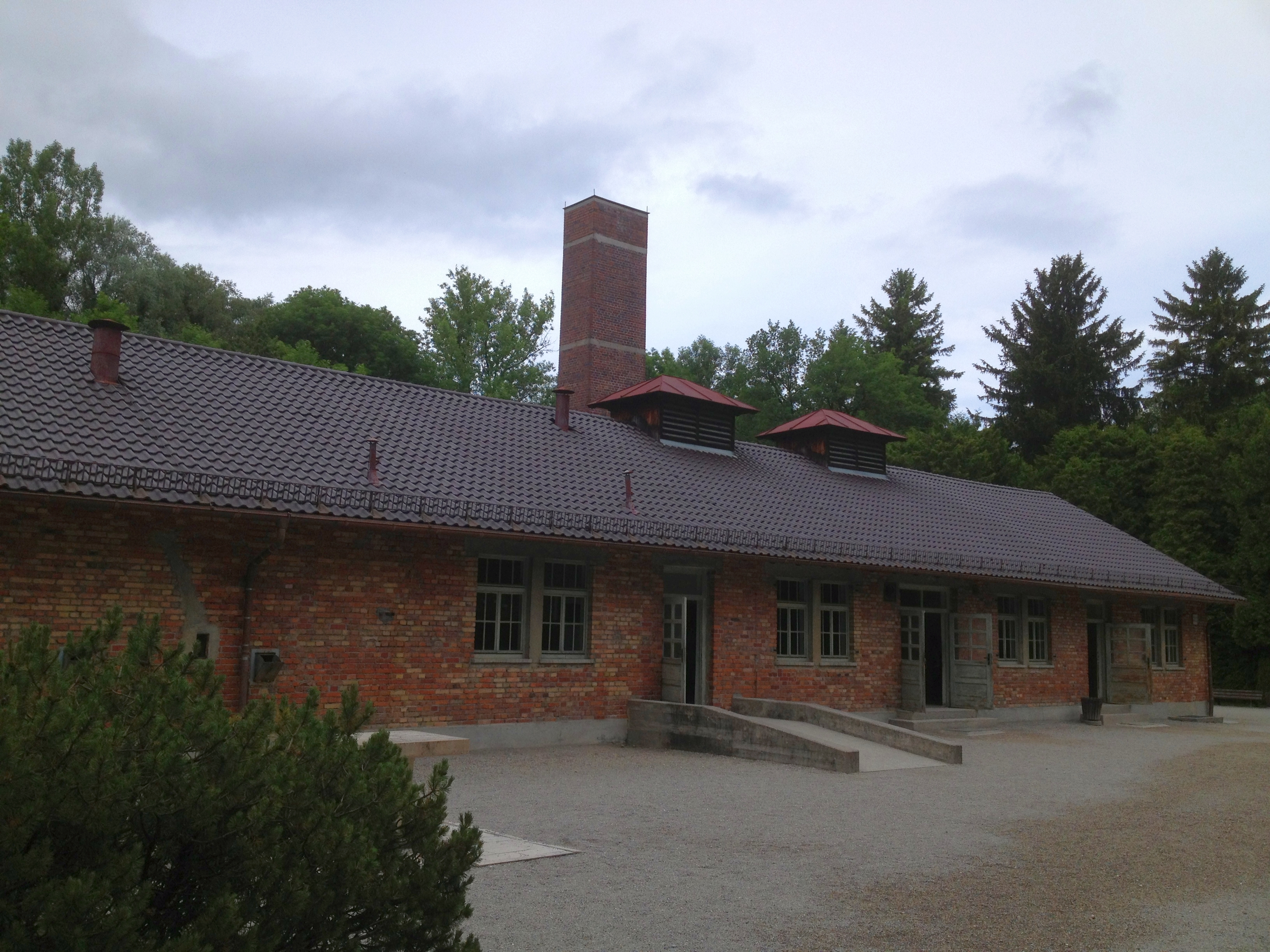 Germany - Bavaria - Dachau (district) - Dachau: Second Crematorium